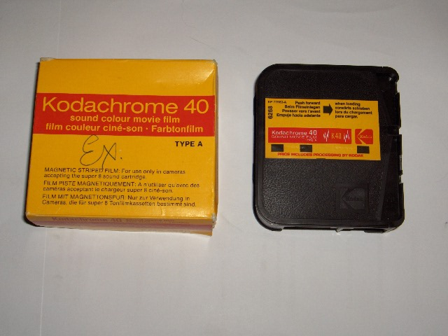 Super 8 cartridge of Kodak Kodachrome 40 Sound stock